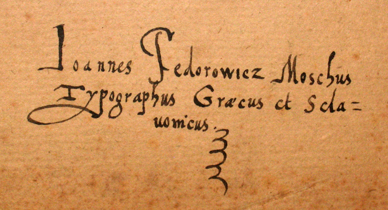 autograph of Ivan Fyodorov, 16th century